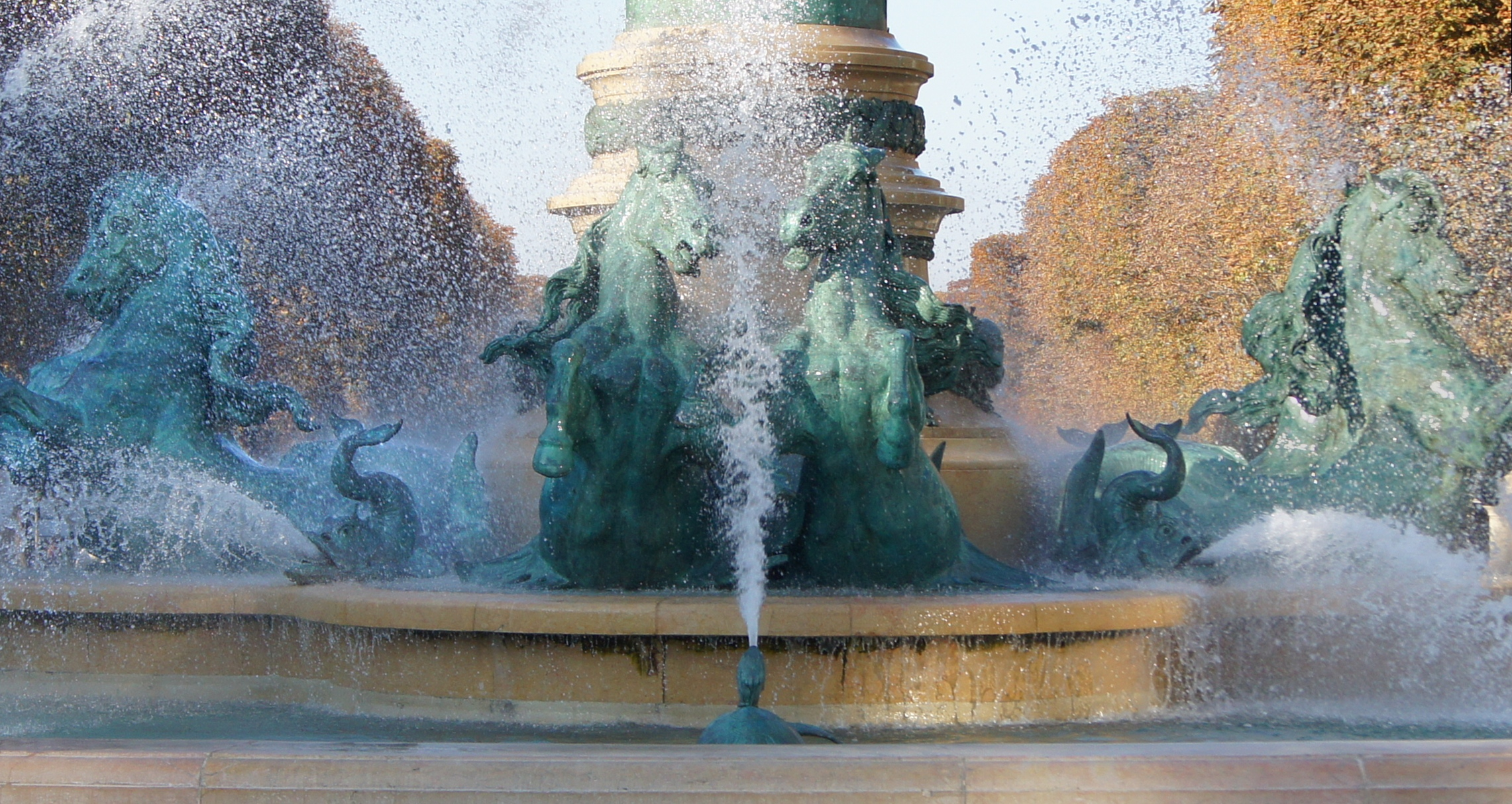 Some of the marine horse, by Frémiet, of the "Fountain of the four parts of the world", Place Camille Jullian near the Observatory Garden in Paris